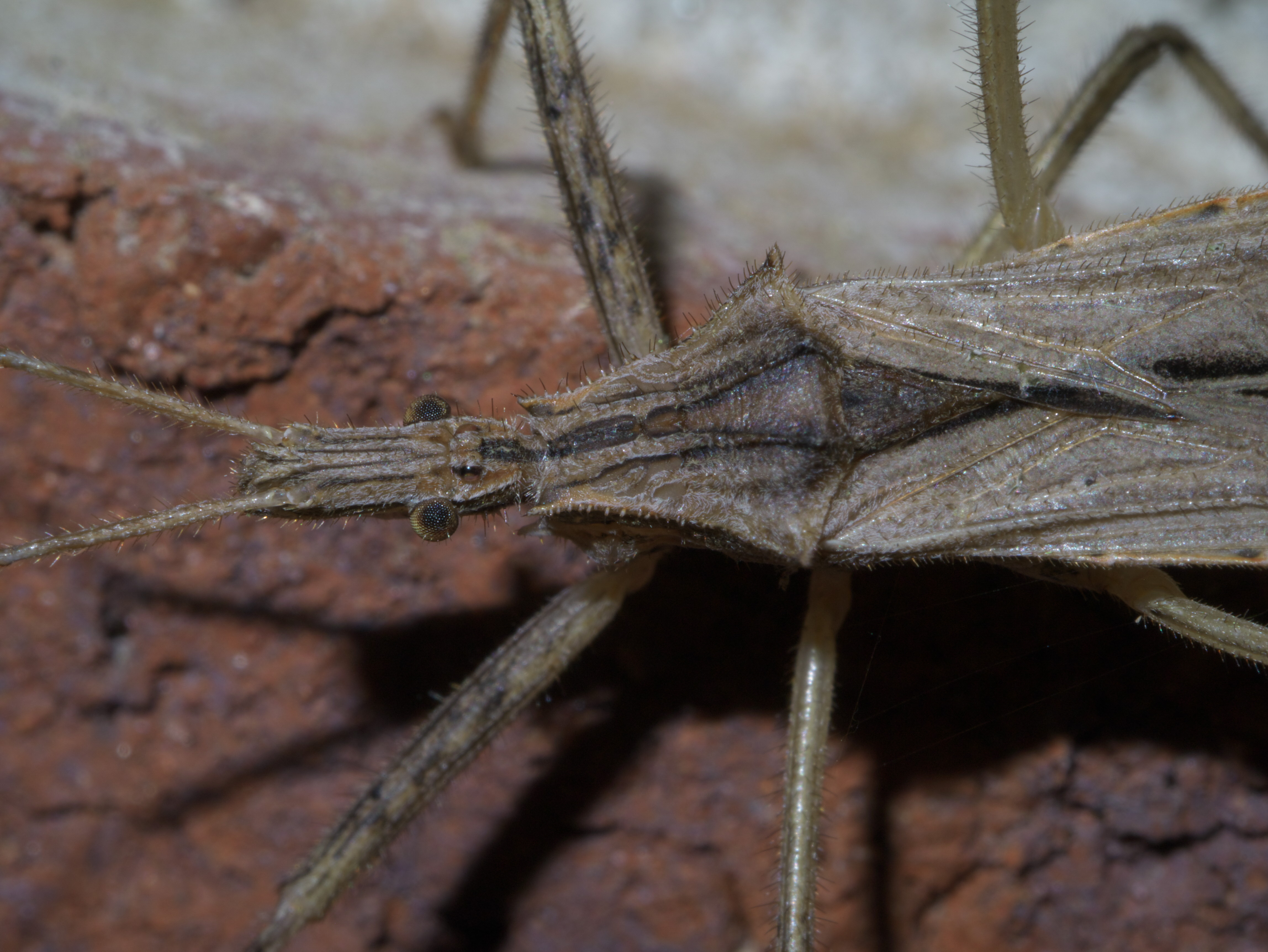 Stenopoda spinulosa, Family: Assassin Bugs, ID Confidence: 90